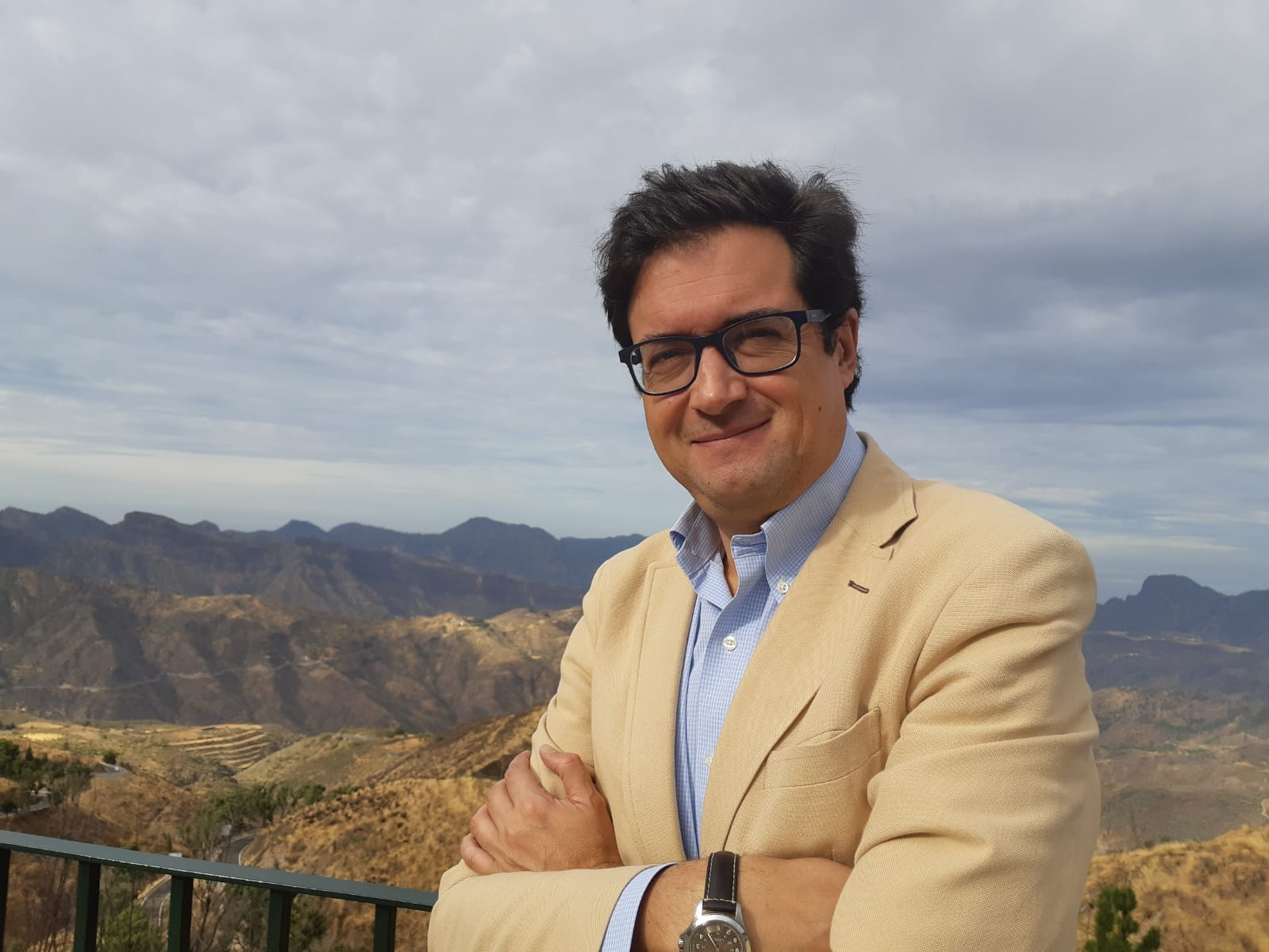 Óscar López, Presidente - Consejero Delegado de Paradores. Parador Cruz de Tejeda (Gran Canaria). 5 de octubre de 2018